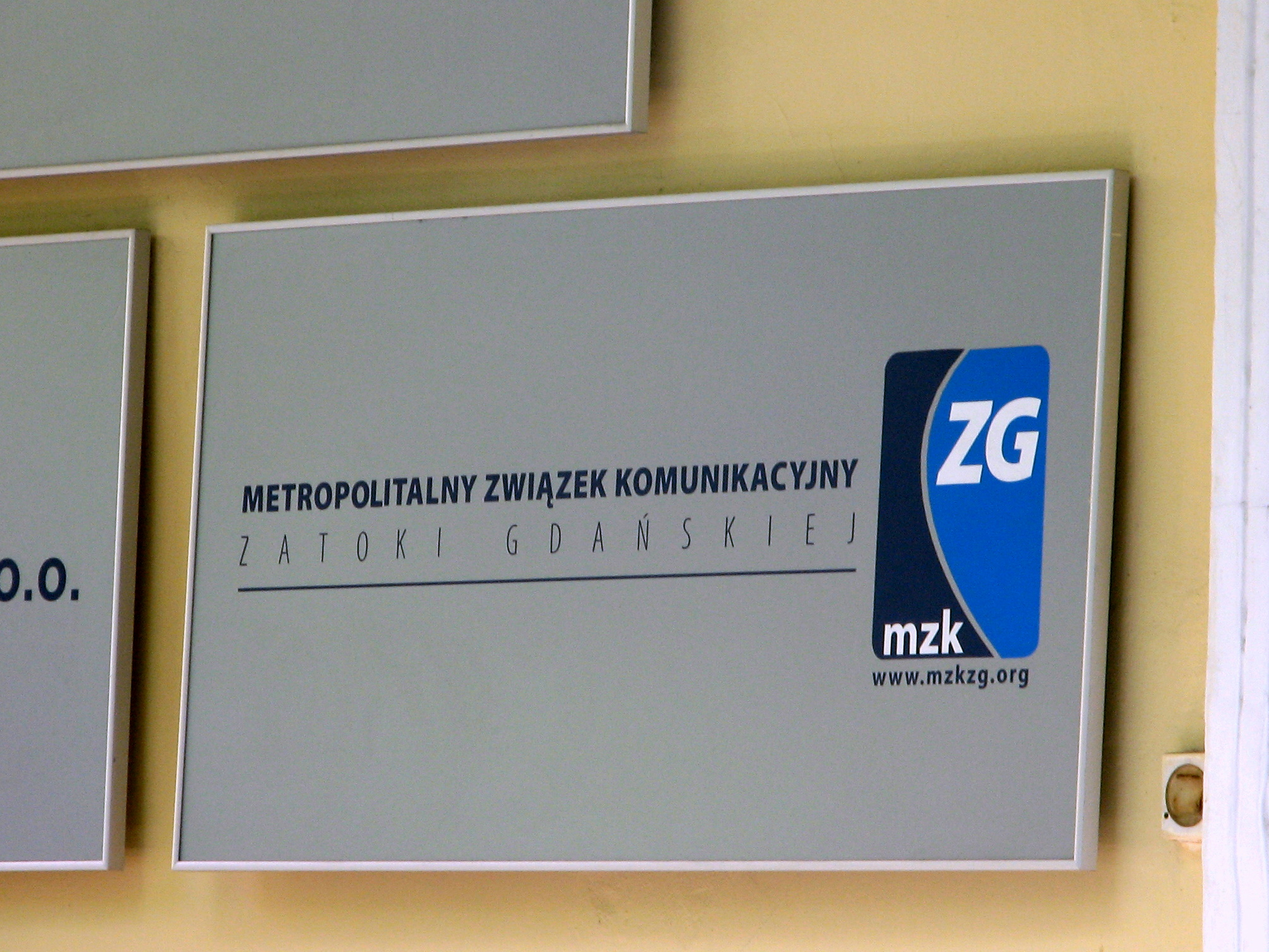 Logo of Metropolitan Communication Association of the Gdańsk Bay.